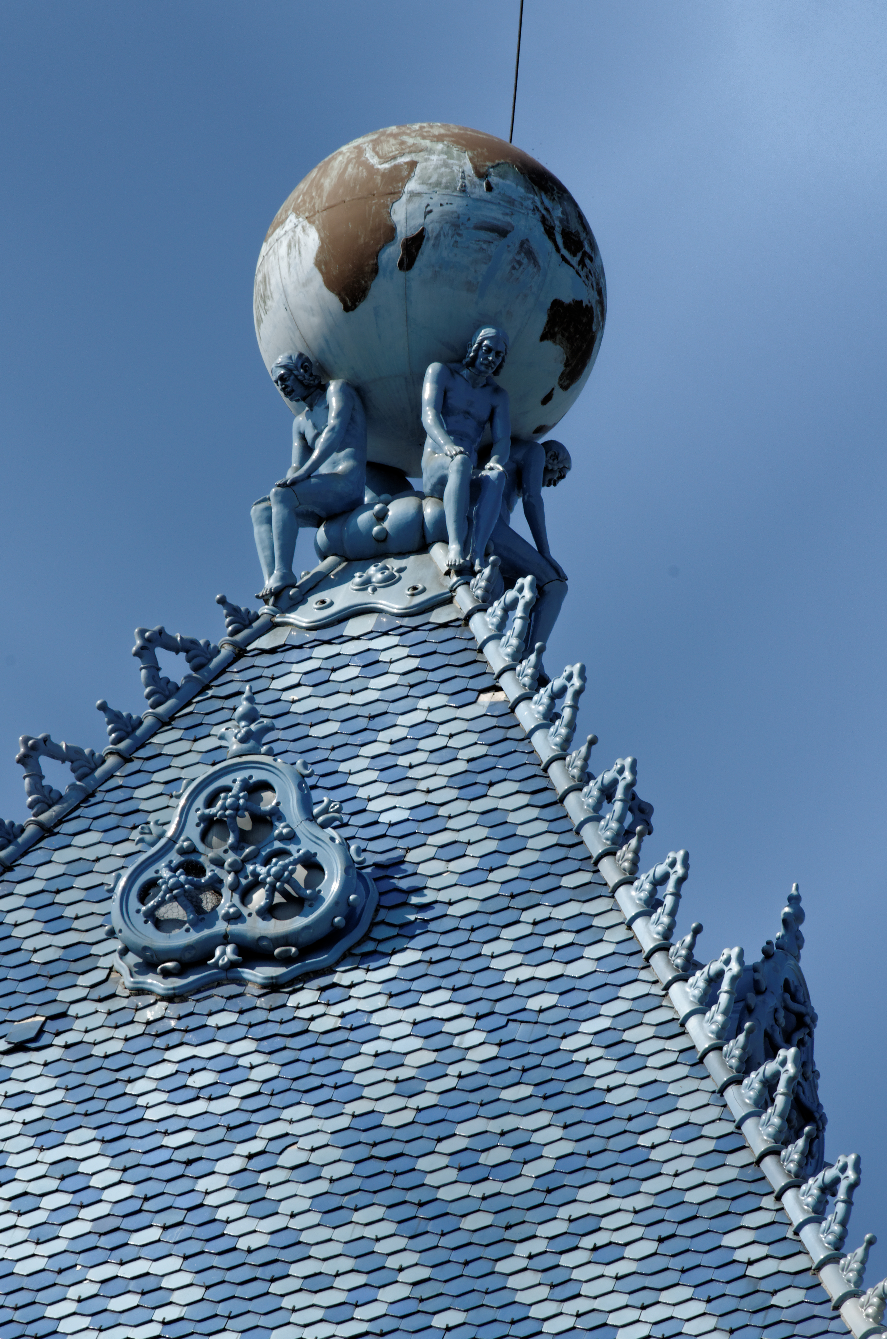 Geological Museum of Budapest, located on the Stefánia utca in the western part of Pest.